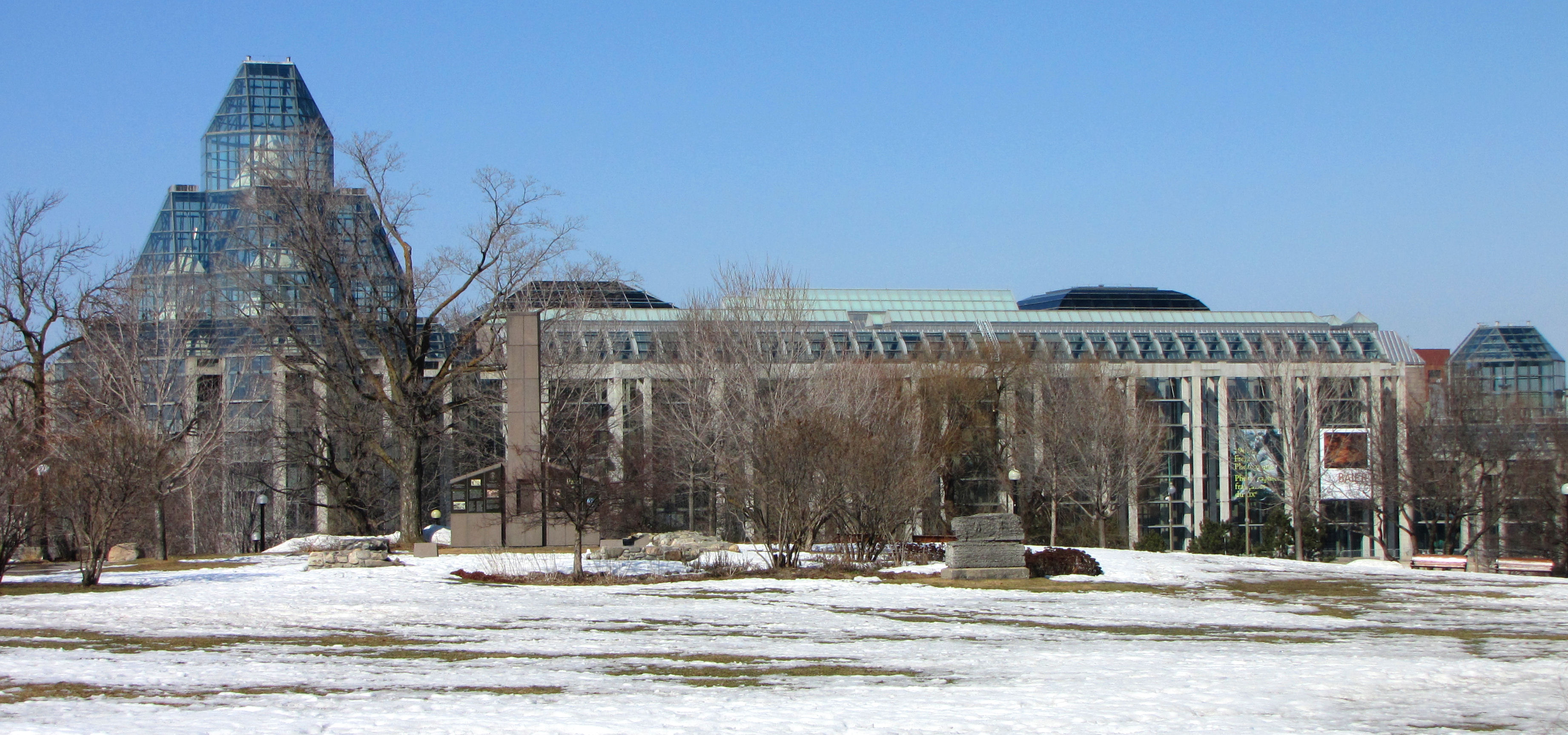 National Gallery of Canada, Ottawa, Ontario